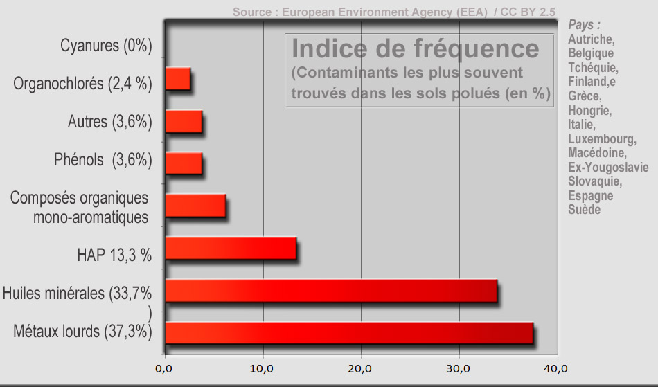 The ranking of contaminants is calculated on the basis of the frequency a specific contaminant is reported to be the most important in the investigated sites: Ranking = (number of countries reporting the specific contaminant as the most important)*2 + (number of countries reporting the specific contaminant as the second most important). Maximum possible score: 37 Data for Belgium refer to the Flanders and the Brussels region only. Data for Italy refer to three out of 20 regions only. Data Coverage: Austria, Belgium, Czech Republic, Finland, FYR of Macedonia, Greece, Hungary, Italy, Luxembourg, Macedonia, Slovakia, Spain, Sweden Time coverage: 2006